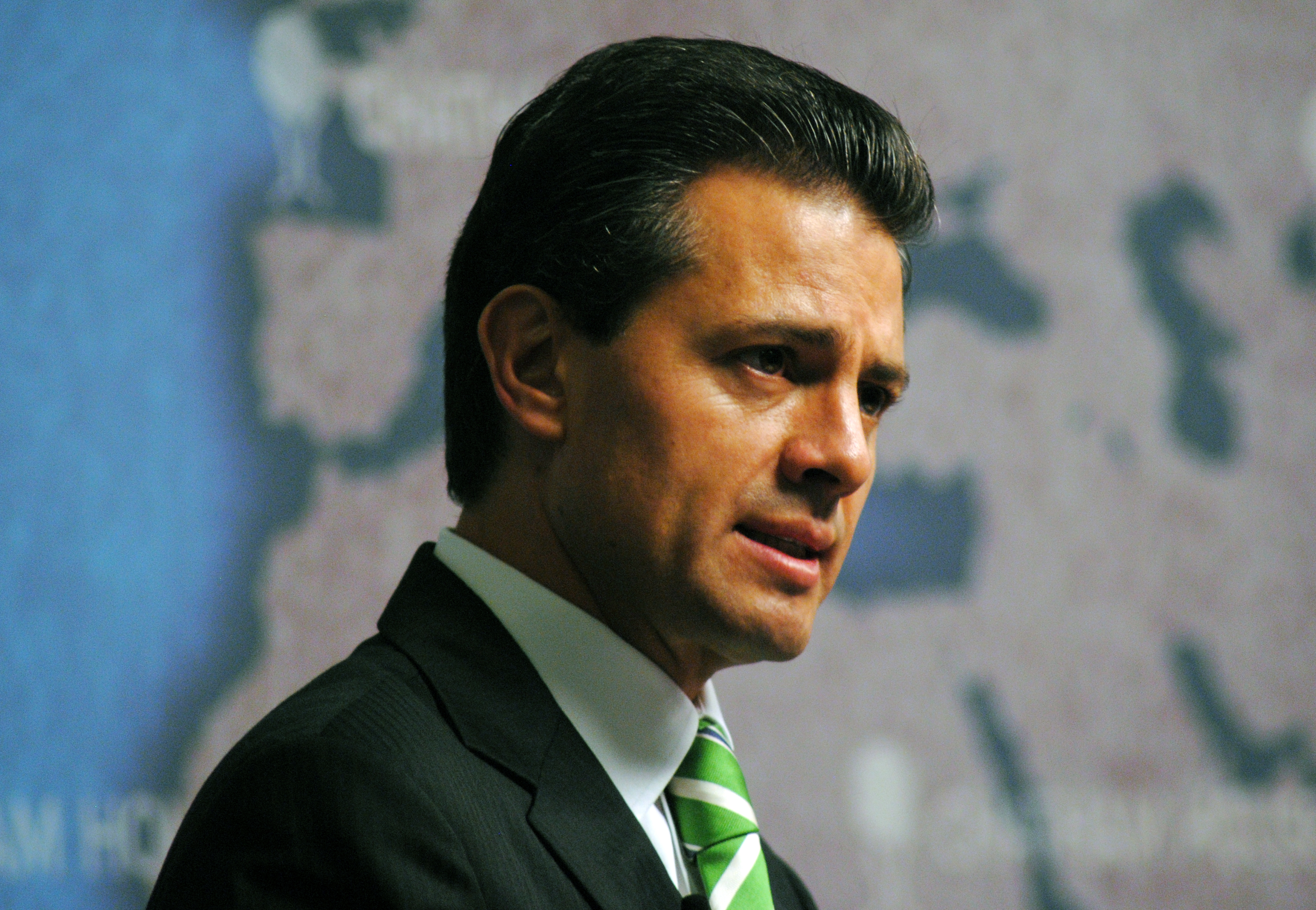 Enrique Peña Nieto, President of Mexico. Mexico's Moment: Structural Reforms, Democratic Governance and Global Engagement, 19 June 2013 cht.hm/15jtubv